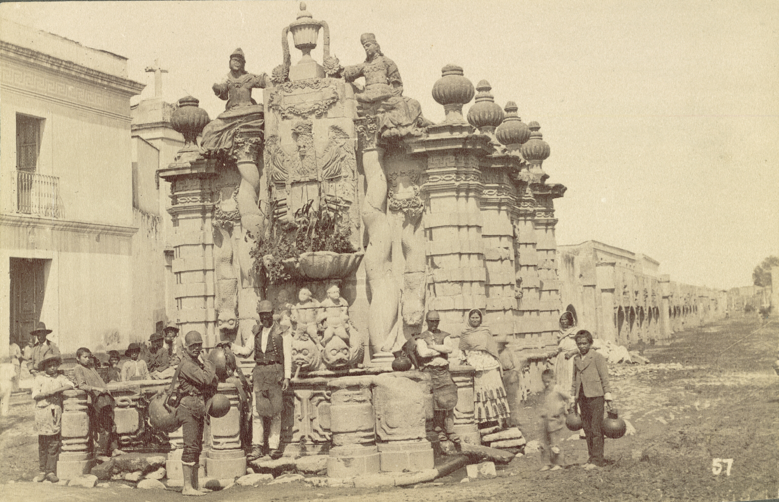 Collection: A. D. White Architectural Photographs, Cornell University Library Accession Number: 15/5/3090.00693 Title: Salto del Agua Fountain Publisher: Claudio Pellandini Photograph date: ca. 1885-ca. 1895 Location: North and Central America: Mexico Materials: albumen print Image: 4 7/8 x 7 1/2 in.; 12.3825 x 19.05 cm Provenance: Schuchardt Collection Persistent URI: There are no known U.S. copyright restrictions on this image. The digital file is owned by the Cornell University Library which is making it freely available with the request that, when possible, the Library be credited as its source. We had some help with the geocoding from